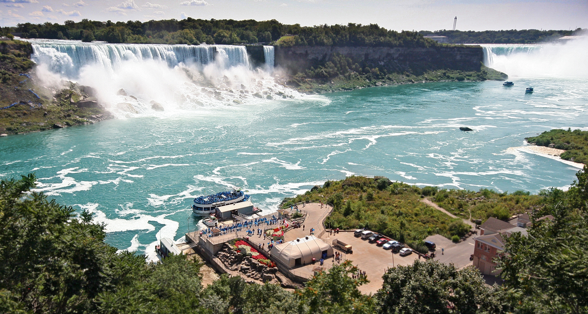 Wide open spaces is what I have been severely lacking lately... And here it was, a merciful break, one noon at the Falls. It was not a trip to the Falls (What, you say?!?!?!) It was to visit family on the other side, in Buffalo, in a very limited time span. So, we got couple of hours of this view, if that...